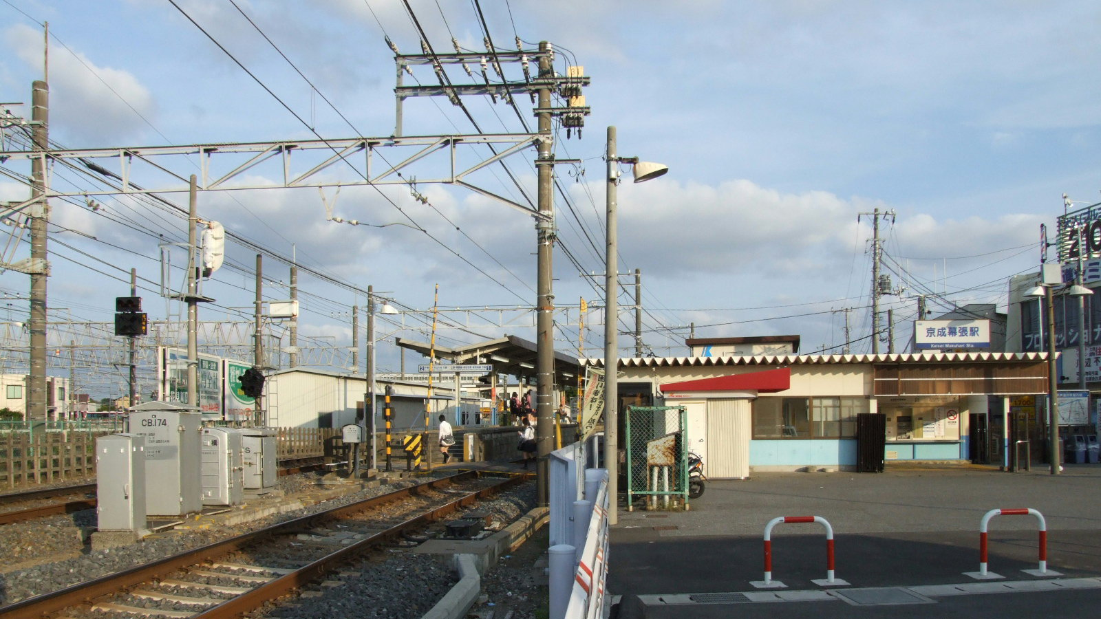 Keisei Makuhari Station. Makuharicho 4 chome, Hanamigawa Ward, Chiba, Chiba Prefecture, Japan. Toward southeast.